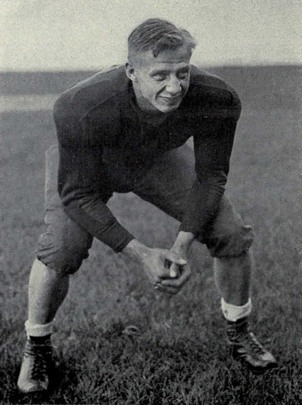 Photograph of Ted Petoskey